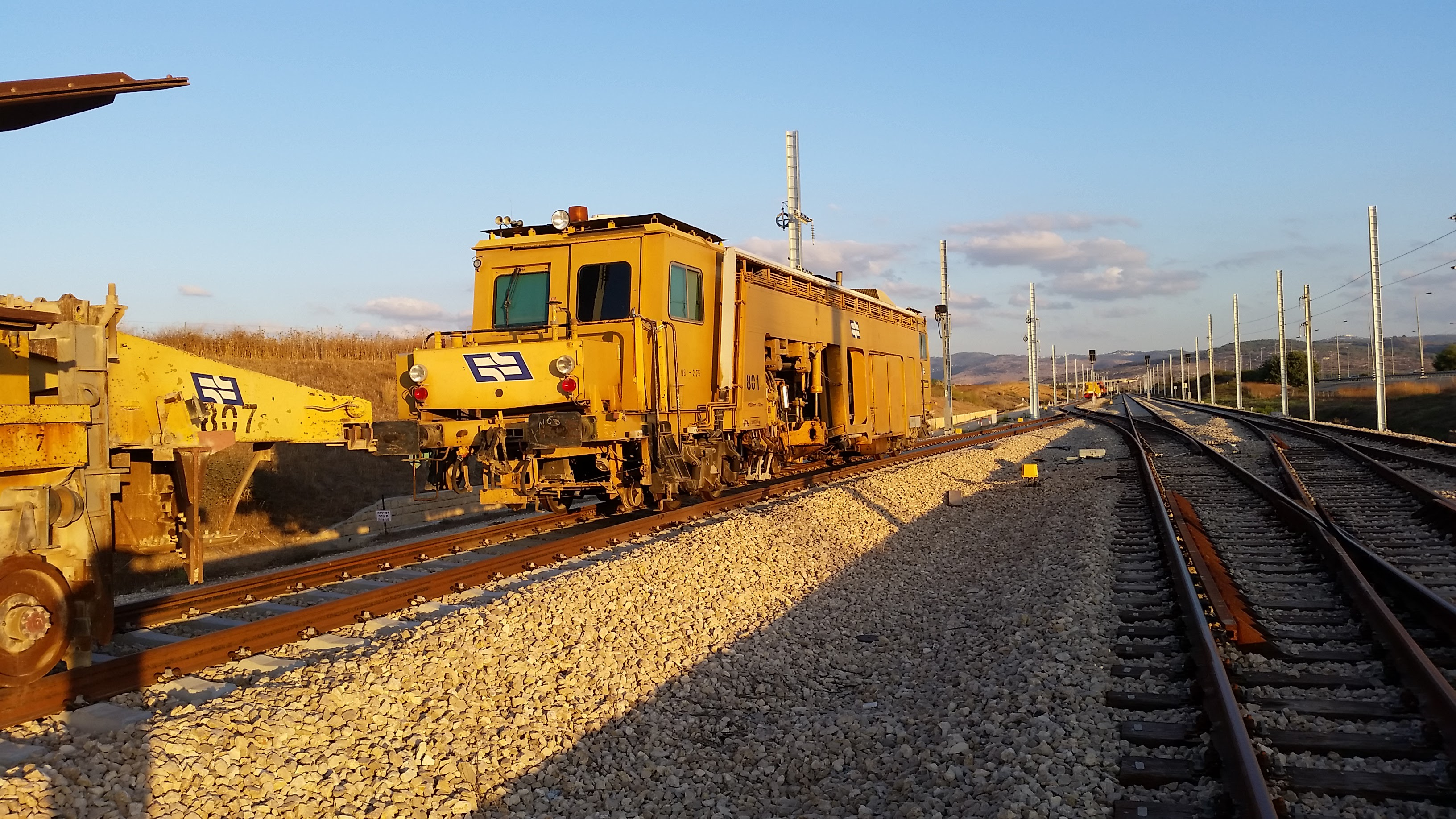 Tamping machine No 801 of Israel Railways Plasser & Theurer Unimat 08-275 Other Side